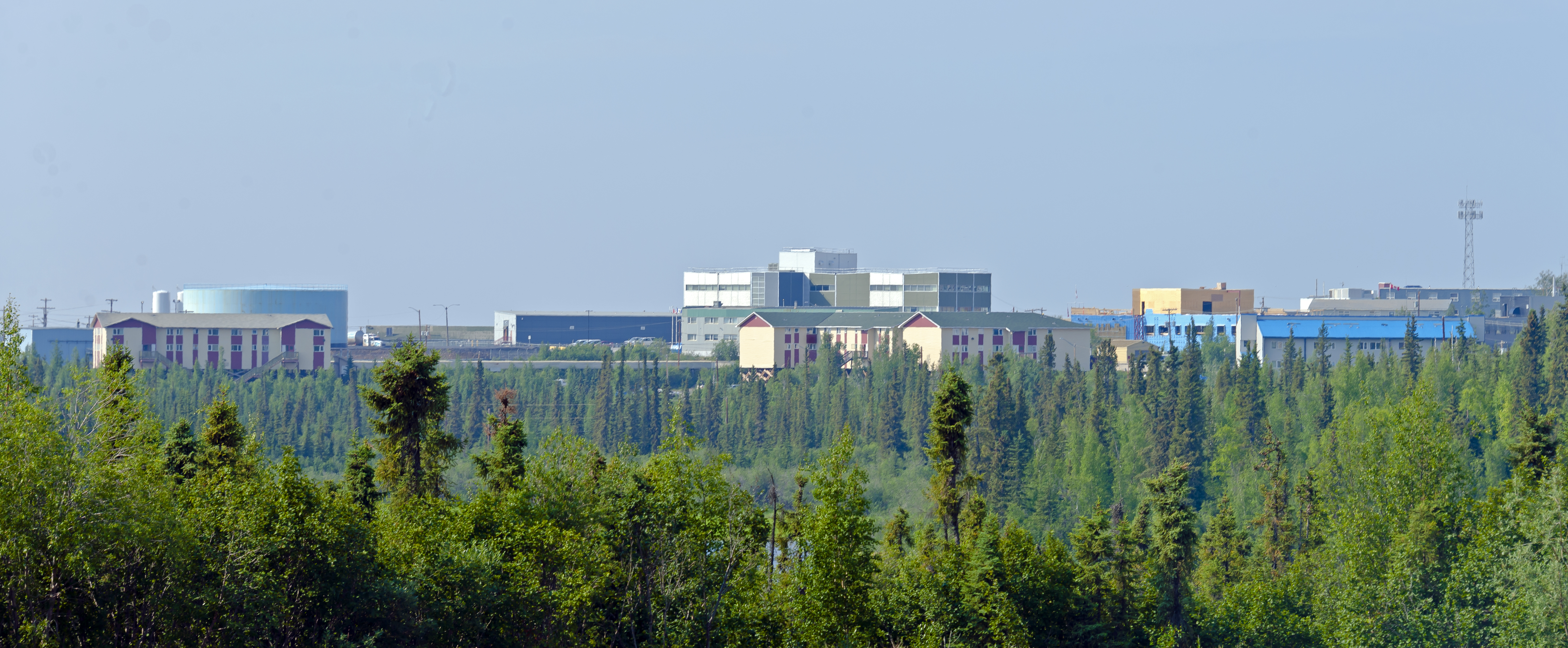 Downtown Inuvik seen from the south.